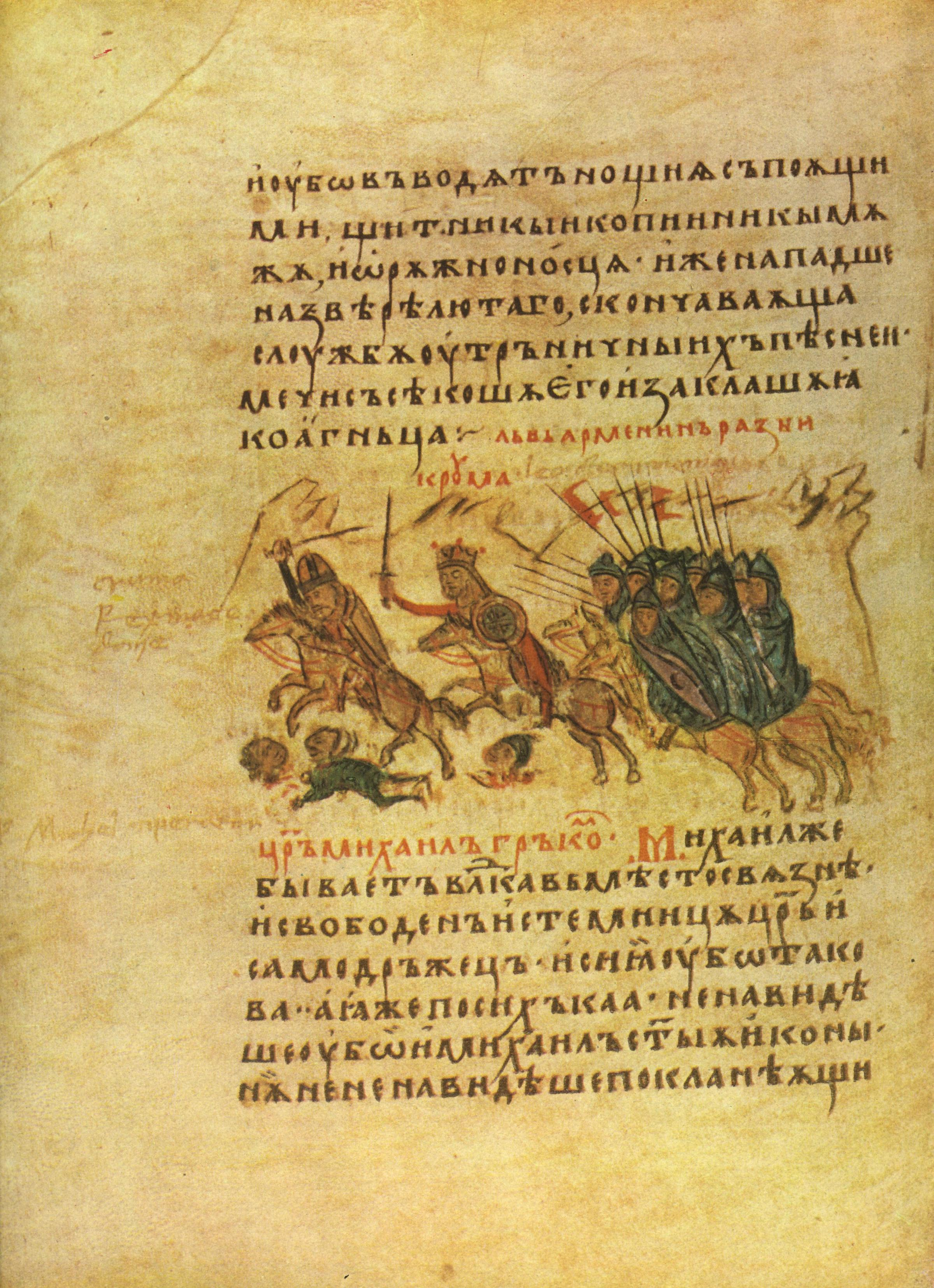 Miniature 54 from the Constantine Manasses Chronicle, 14 century: Byzantine emperor Leo V the Armenian persecutes Krum of Bulgaria.